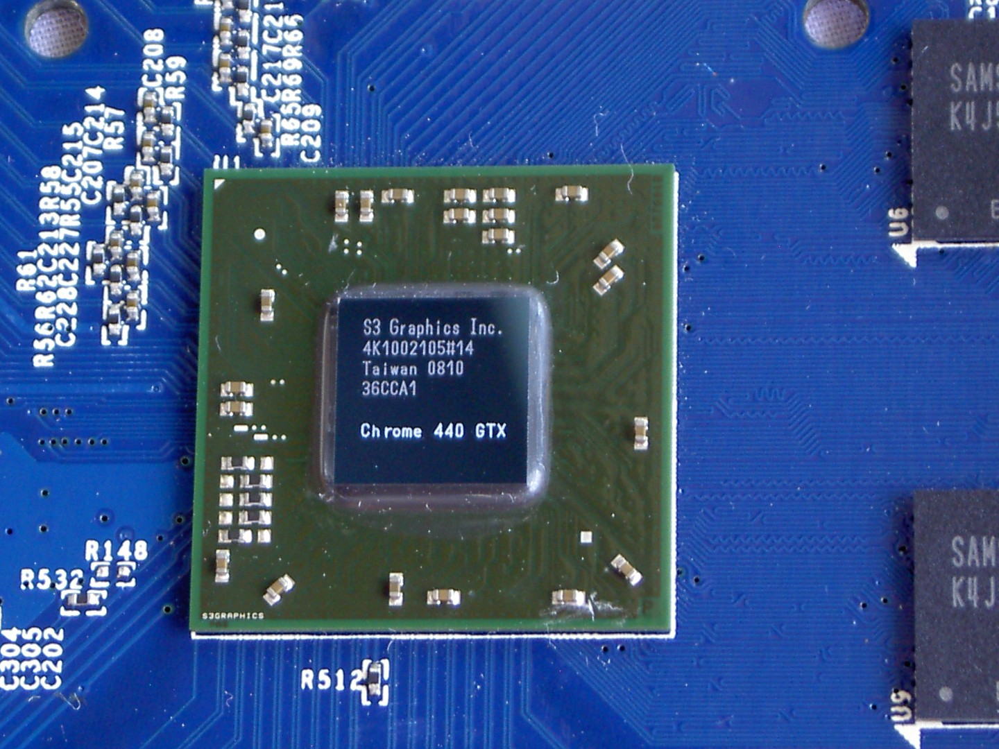 S3 Graphics Chrome 440GTX GPU